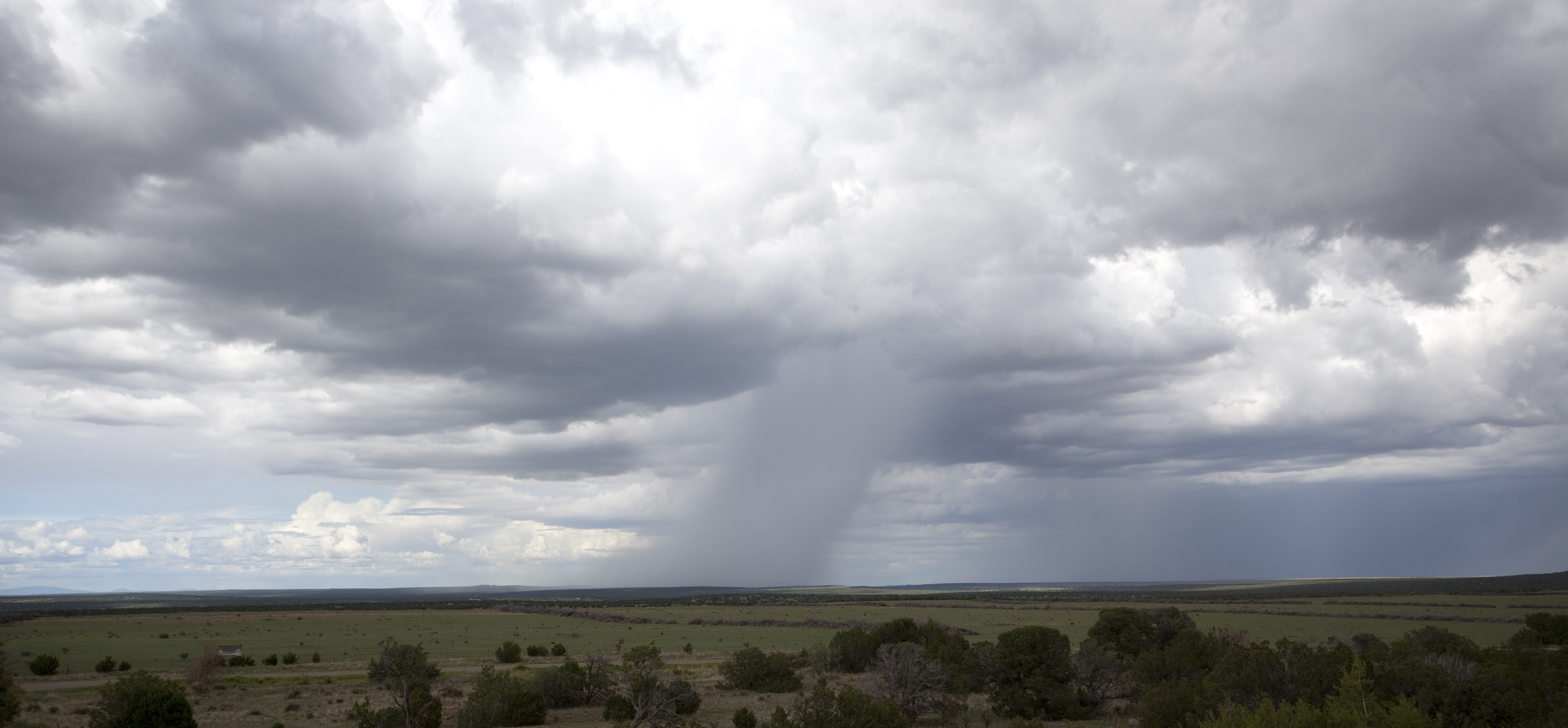 Rainstorm in Eastern New Mexico associated with the North American Monsoon, which draws moisture from the Gulf of Mexico during the late summer months.